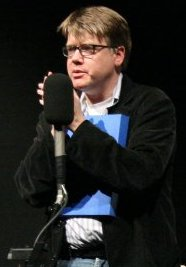 crop of Jon Naismith, the producer of 'You'll Have Had Your Tea' from image as he thanks the cast.